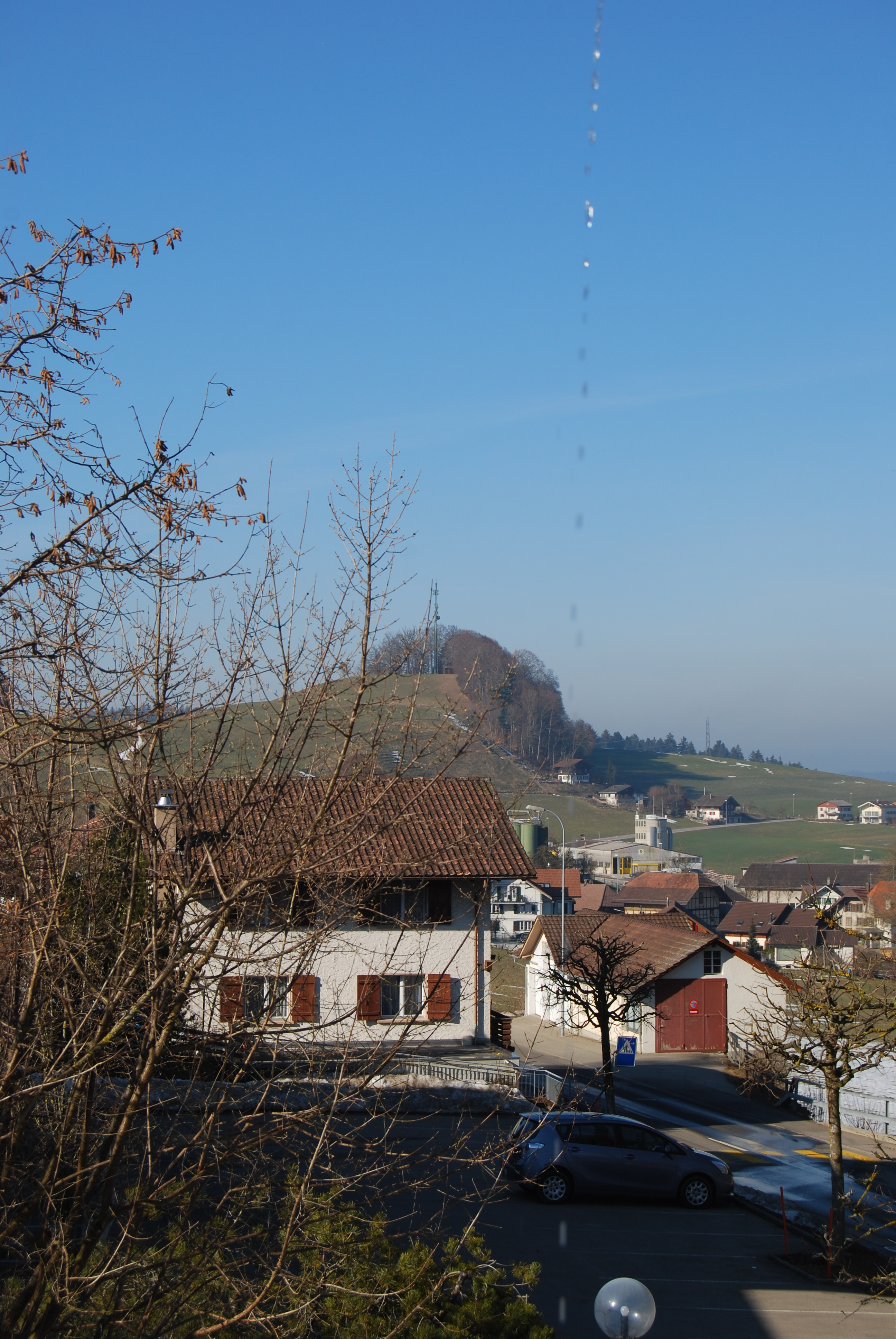 Wyssachen, canton of Bern, SwitzerlandEsperanto: Wyssachen, Kantono Berno, Svislando